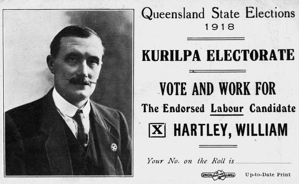 How-to-vote sheet for re-election of politician William Hartley, MLA Kurilpa, Queensland, for the 1918 Queensland state election. Includes photograph of Hartley.